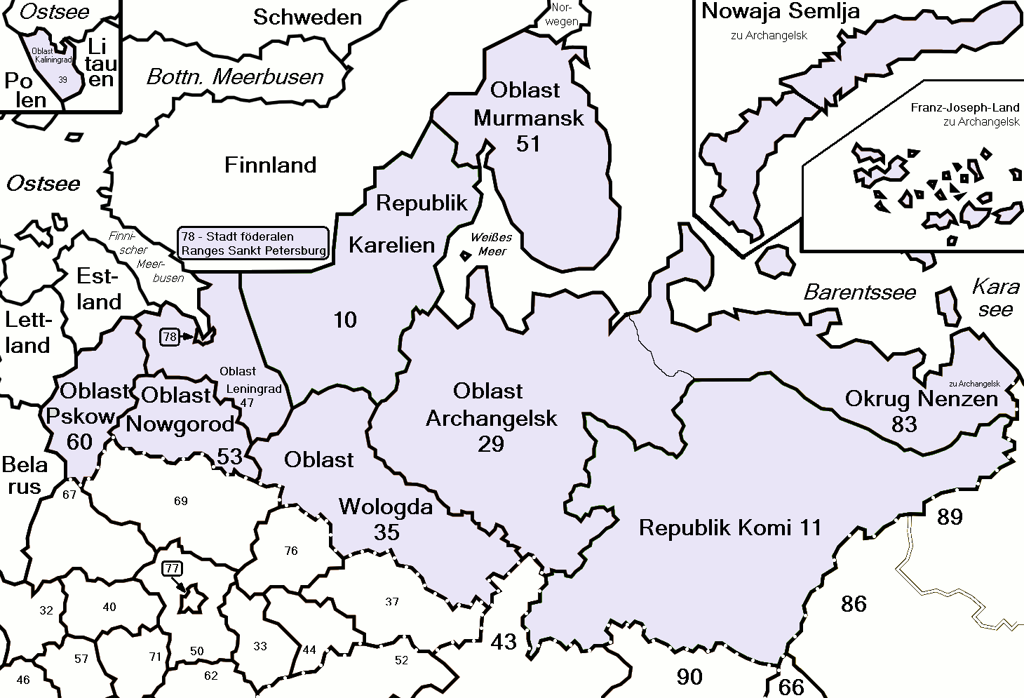 Map of Russia with merged subjects (01.01.2008, last merger Irkutskaya oblast+Ust-Orda Buryat autonomous district.) The subjects are grouped and tagged with their respective ISO 3166-2:RU code for easy creation of derivative maps.